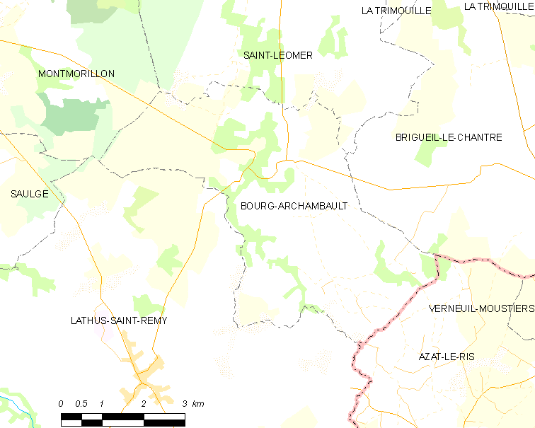 Map of French municipality Bourg-Archambault